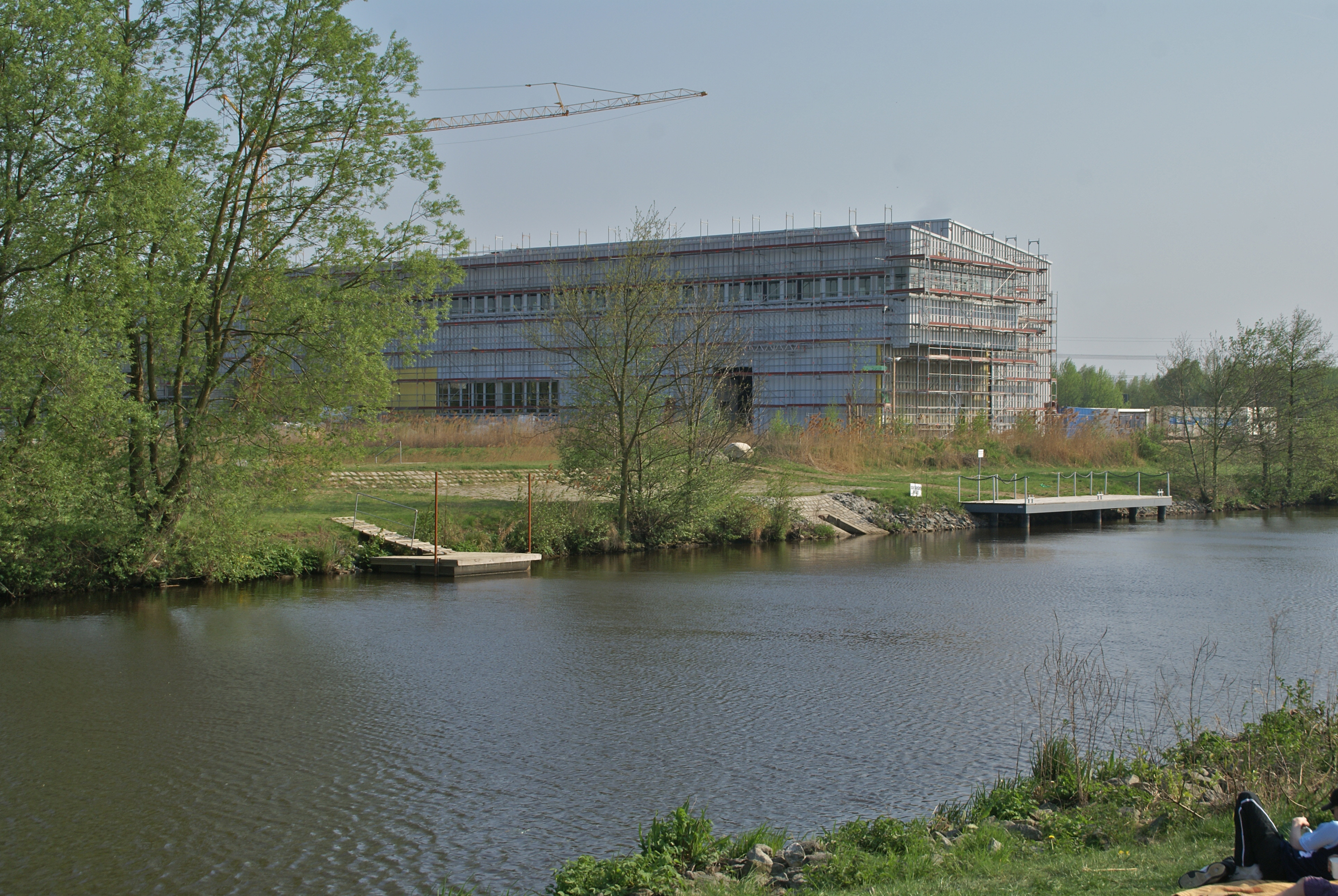 Hamburg (Bergedorf), Germany: The new development at the Schleusengrabenbank starts